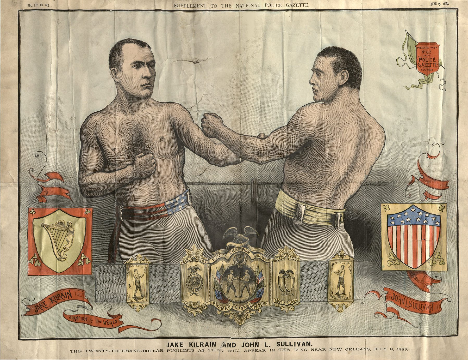 Chromolithograph supplement to National Police Gazette illustrating the Kilrain-Sullivan prizefight. Note that the location of the fight is only noted as "near New Orleans", since the location of the quasi-legal fight was not announced in advance. Ticket holders were taken to the fight on special trains leaving New Orleans to secret destination.